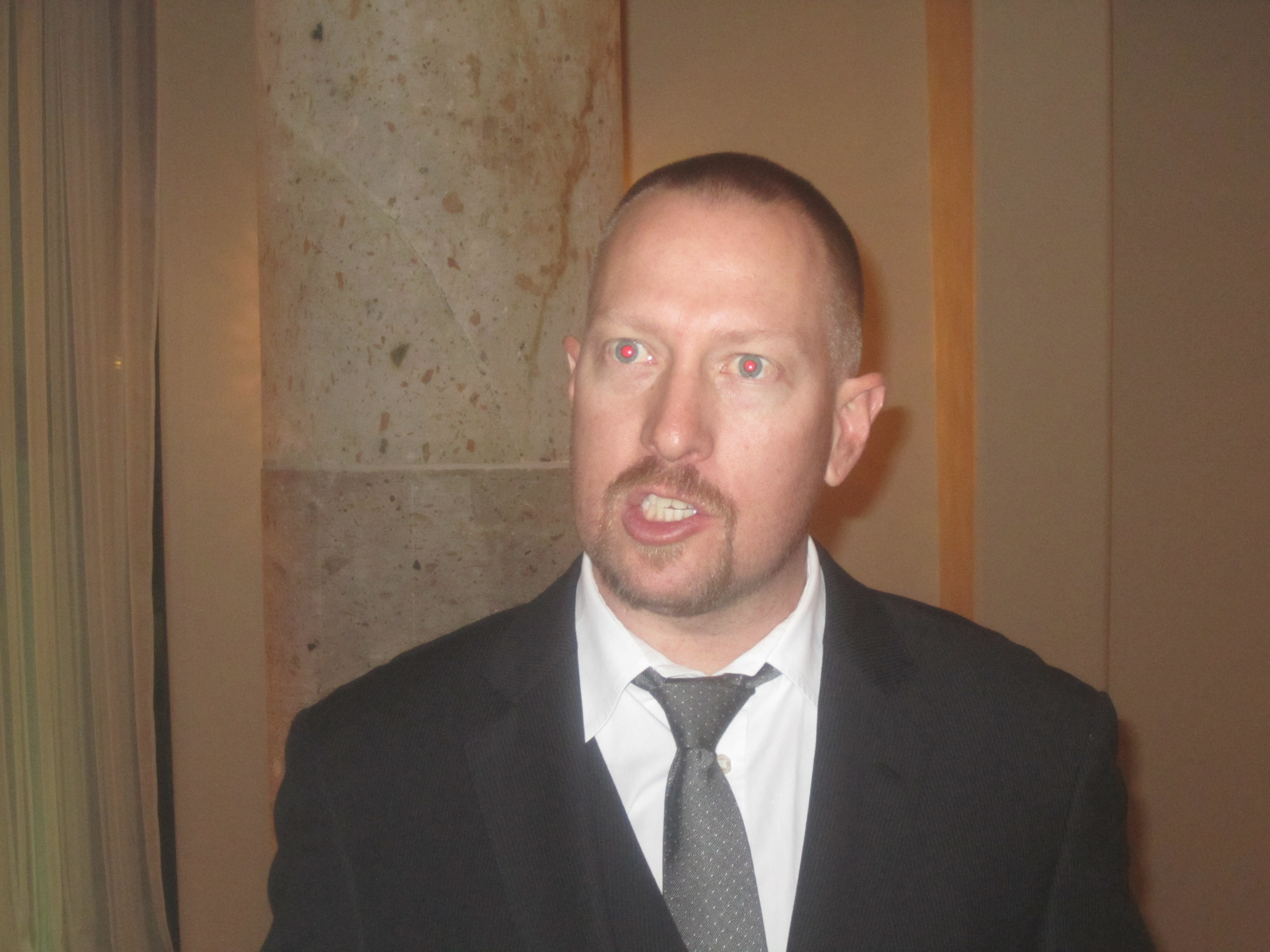 I took photo in Laredo, TX, with Canon camera.